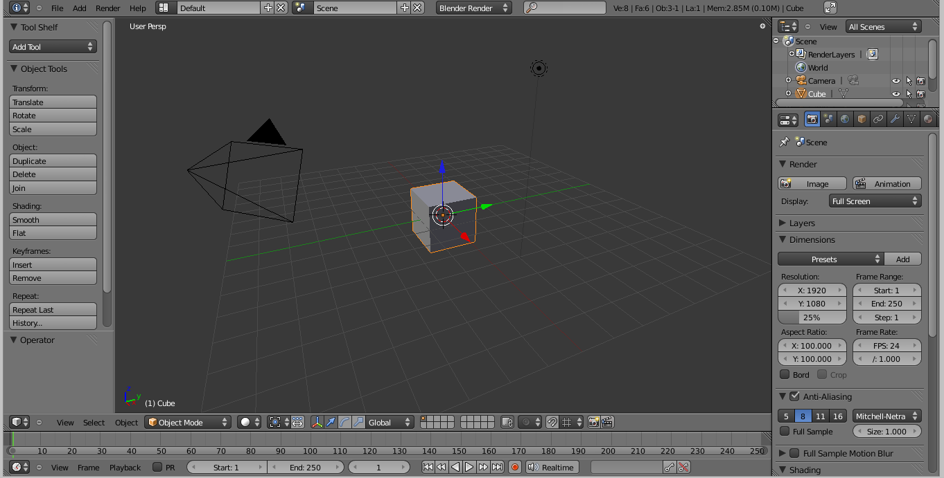 User interface of Blender